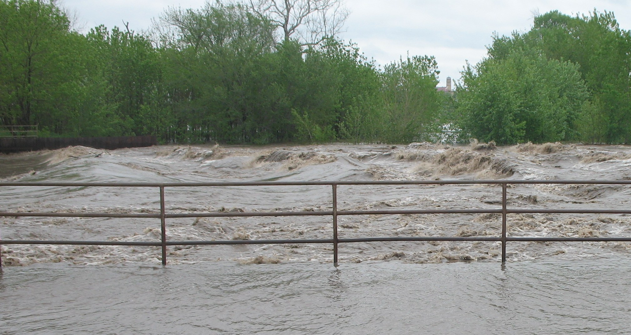 en:102 River after breaching dam at Maryville, Missouri during Flood of 2007. Photo by poster in May 2007.